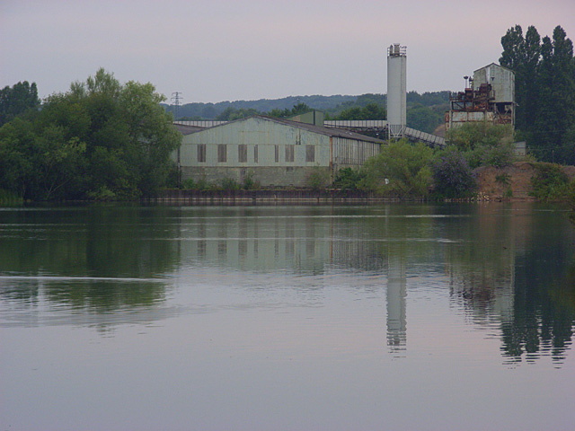 Lafarge concrete works, Sonning Looking across former gravel pits, now a fishing and water sports amenity, on the Oxfordshire side of the River Thames.